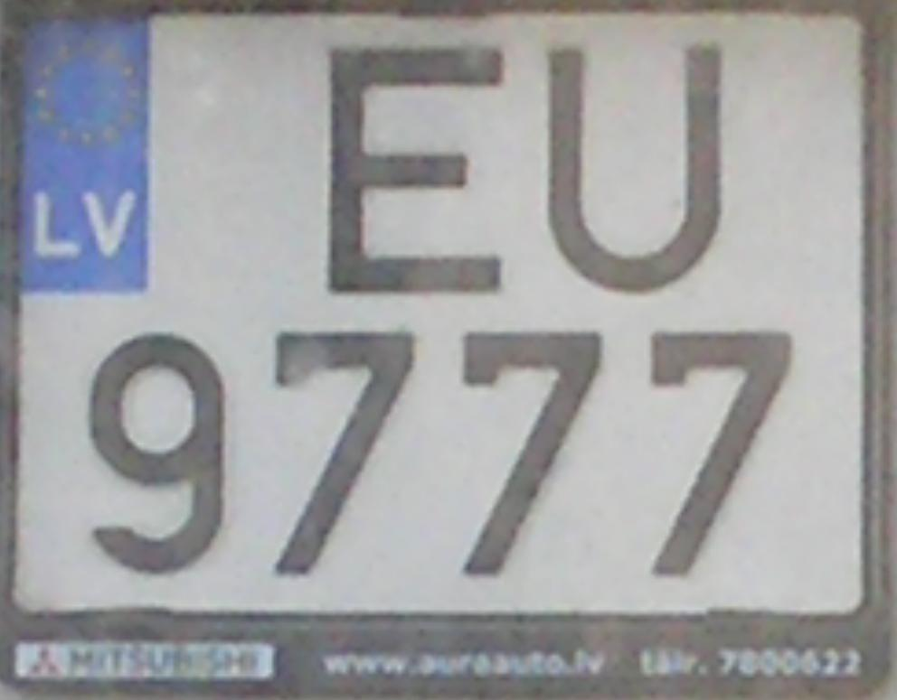 License plate from Latvia